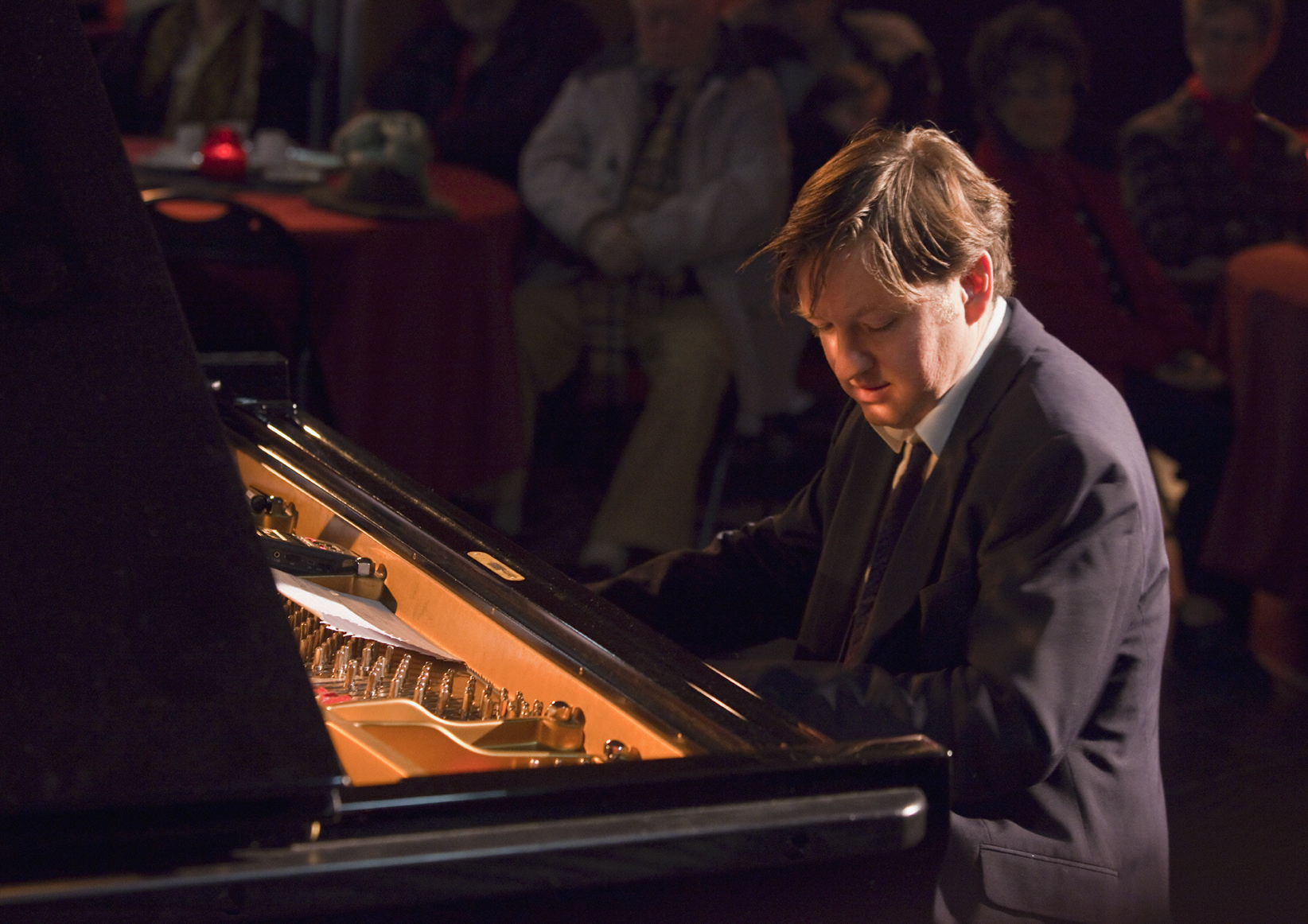 Franck Avitabile - Piano Solo - Live at Théâtre du Chesnay (78150, France) 2011, January the 18th